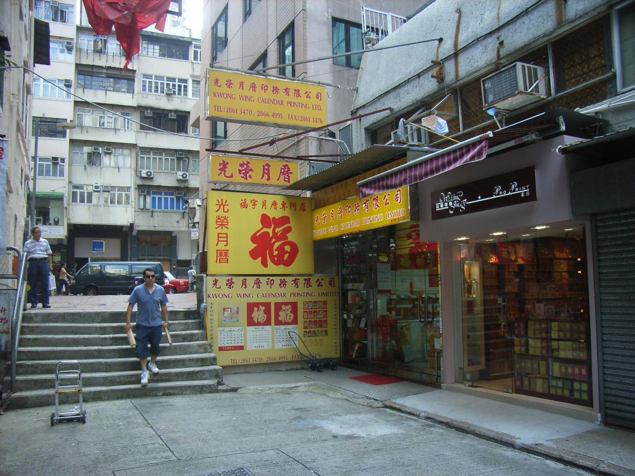 廈門街 (Amoy Street)，灣仔舊區街道 Wanchai old streets, Hong Kong. (A1 Wong East).